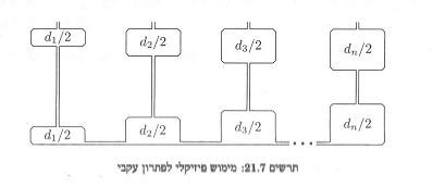 mathematical game theory (Applied mathematics).